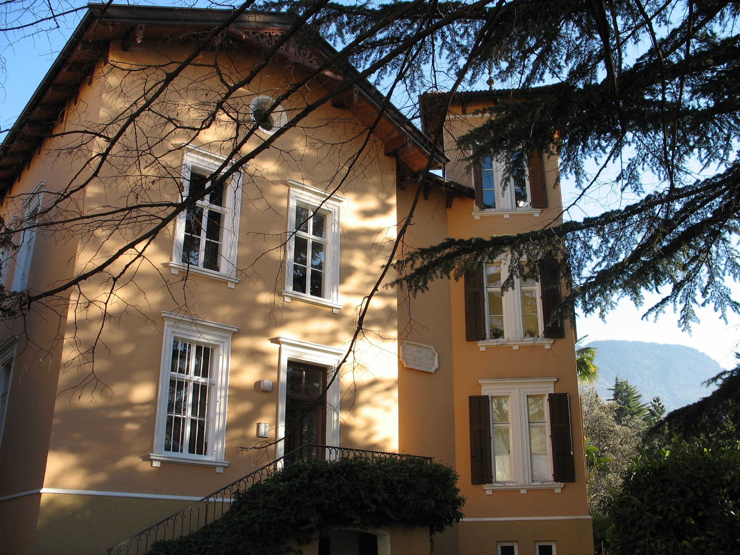 House belonging to Mary Howitt in 1880 in Merano in Italy. Mary died 1888, spending the winter in Rome